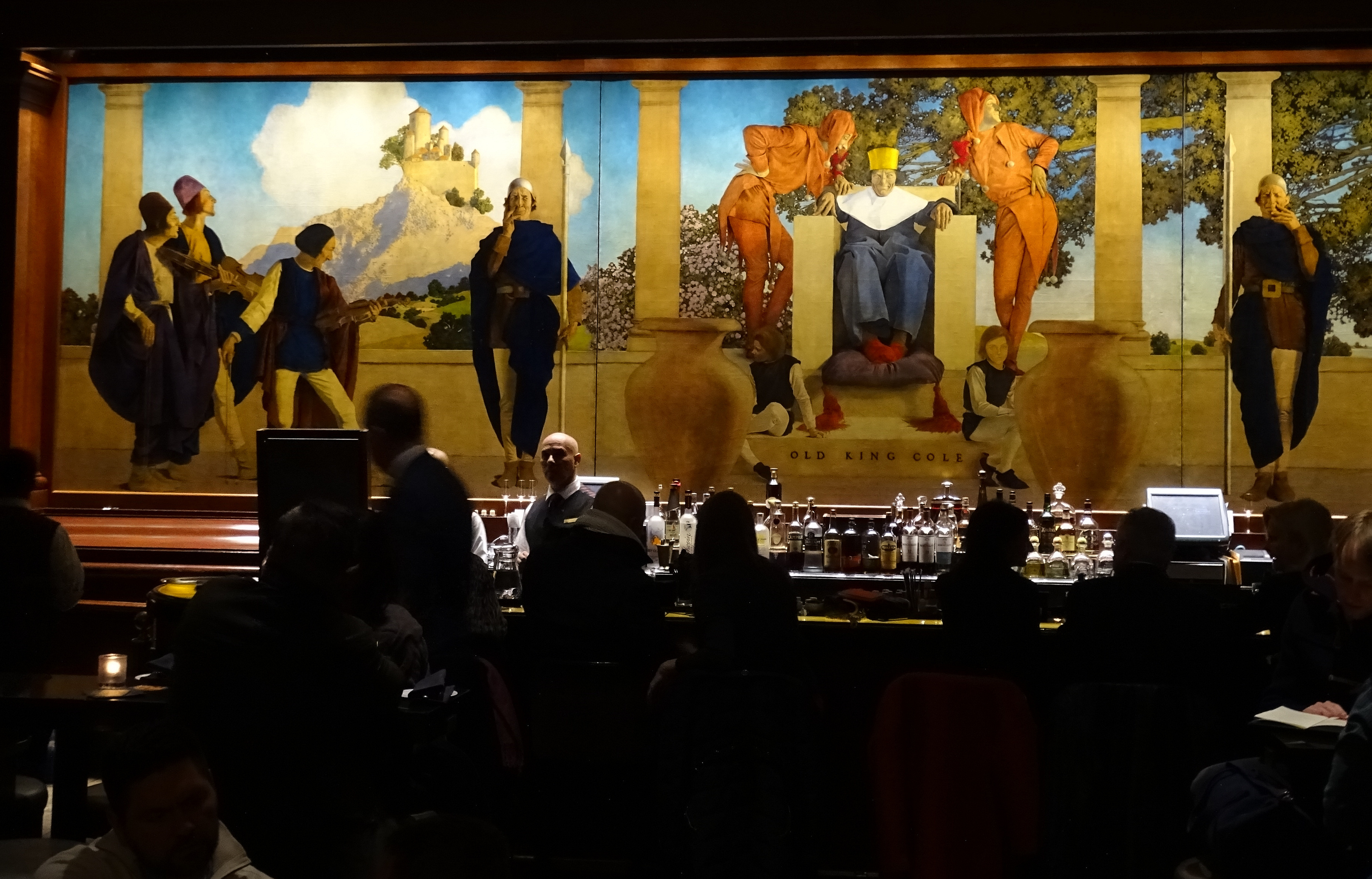 Interior of Old King Cole Bar - St. Regis Hotel - Midtown - Manhattan - New York City - USA